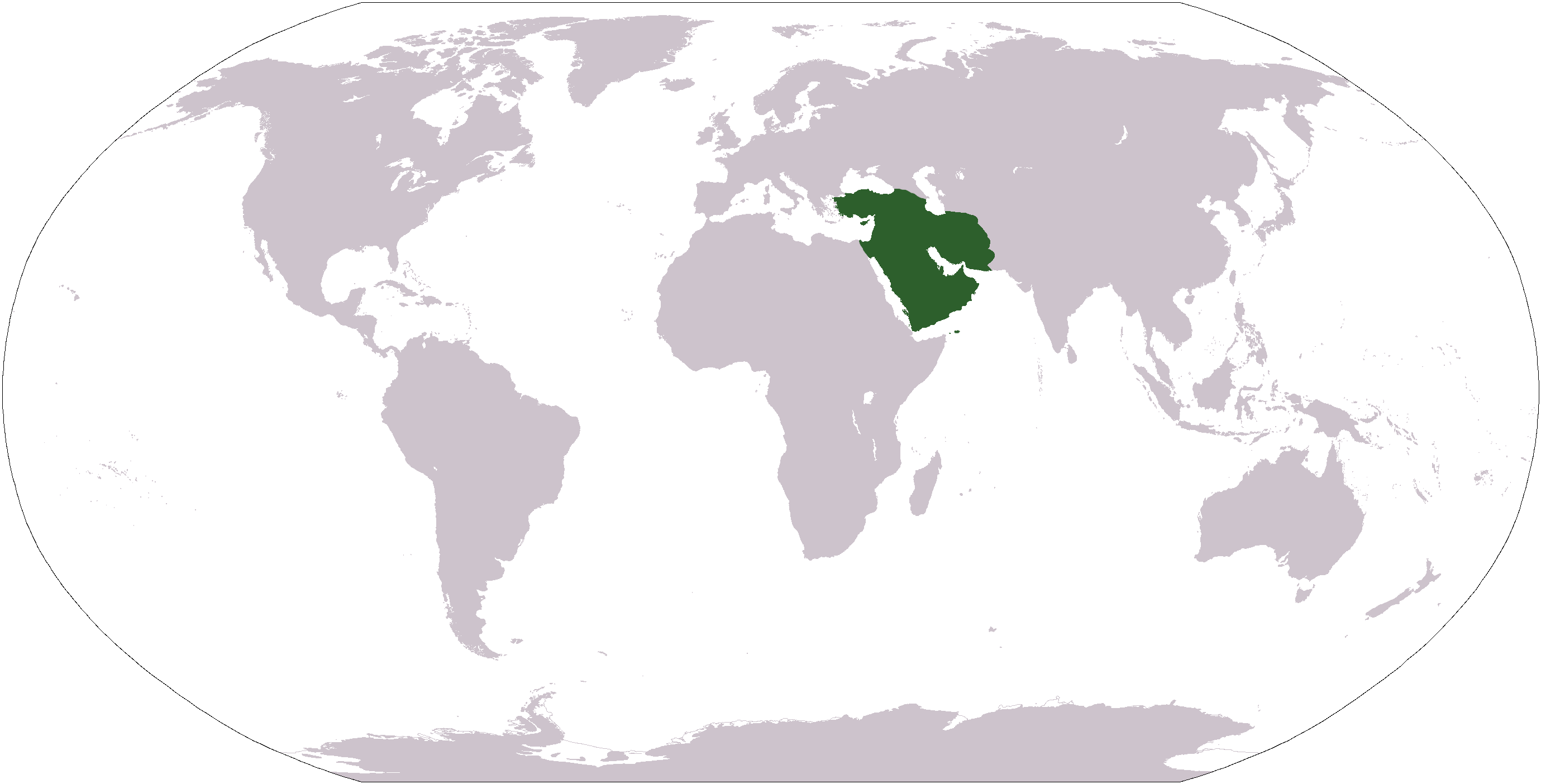 World map depicting Middle East part of Asia